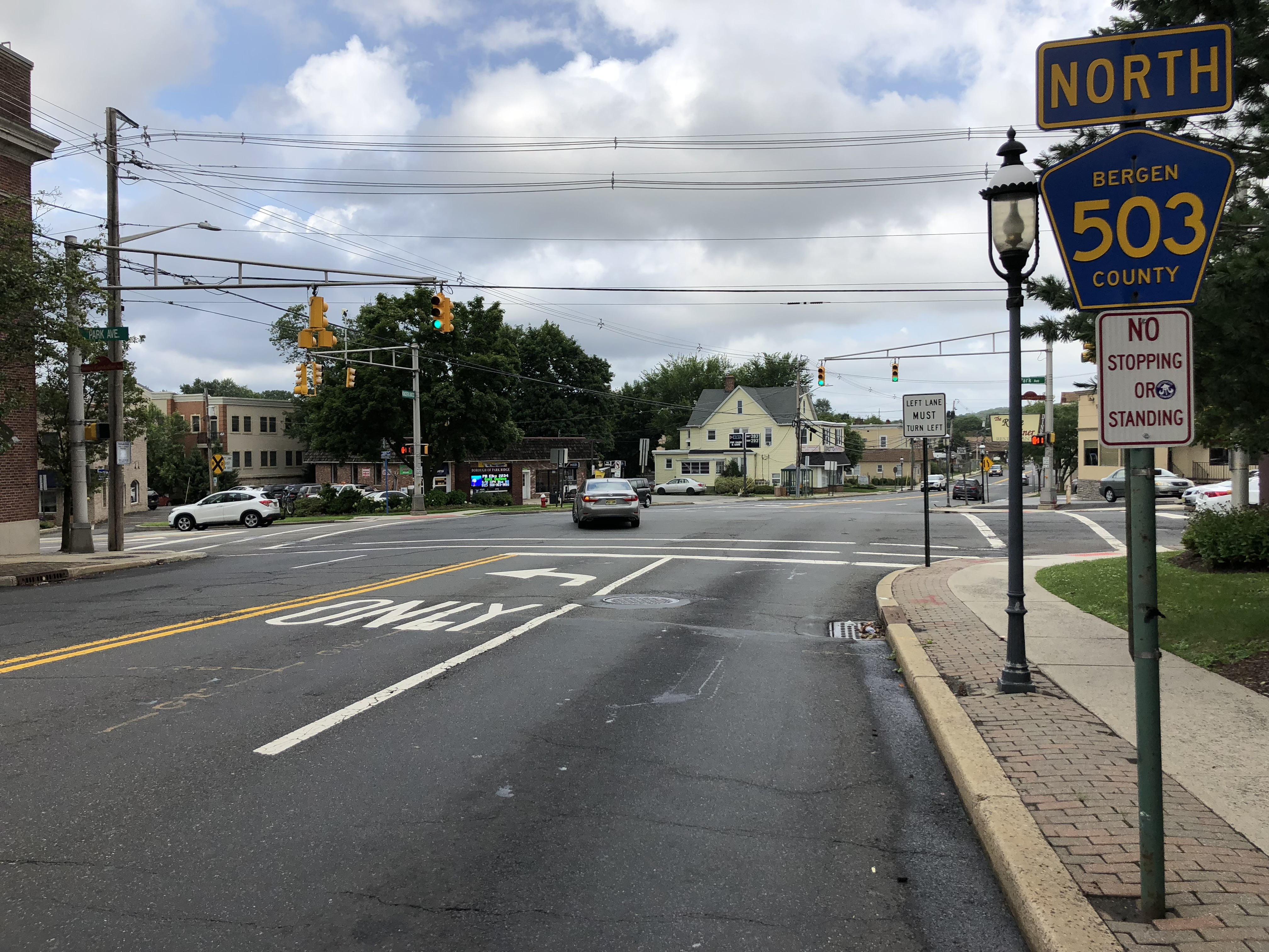 View north along Bergen County Route 503 (Kinderkamack Road) at Bergen County Route 92 (Park Avenue) in Park Ridge, Bergen County, New Jersey